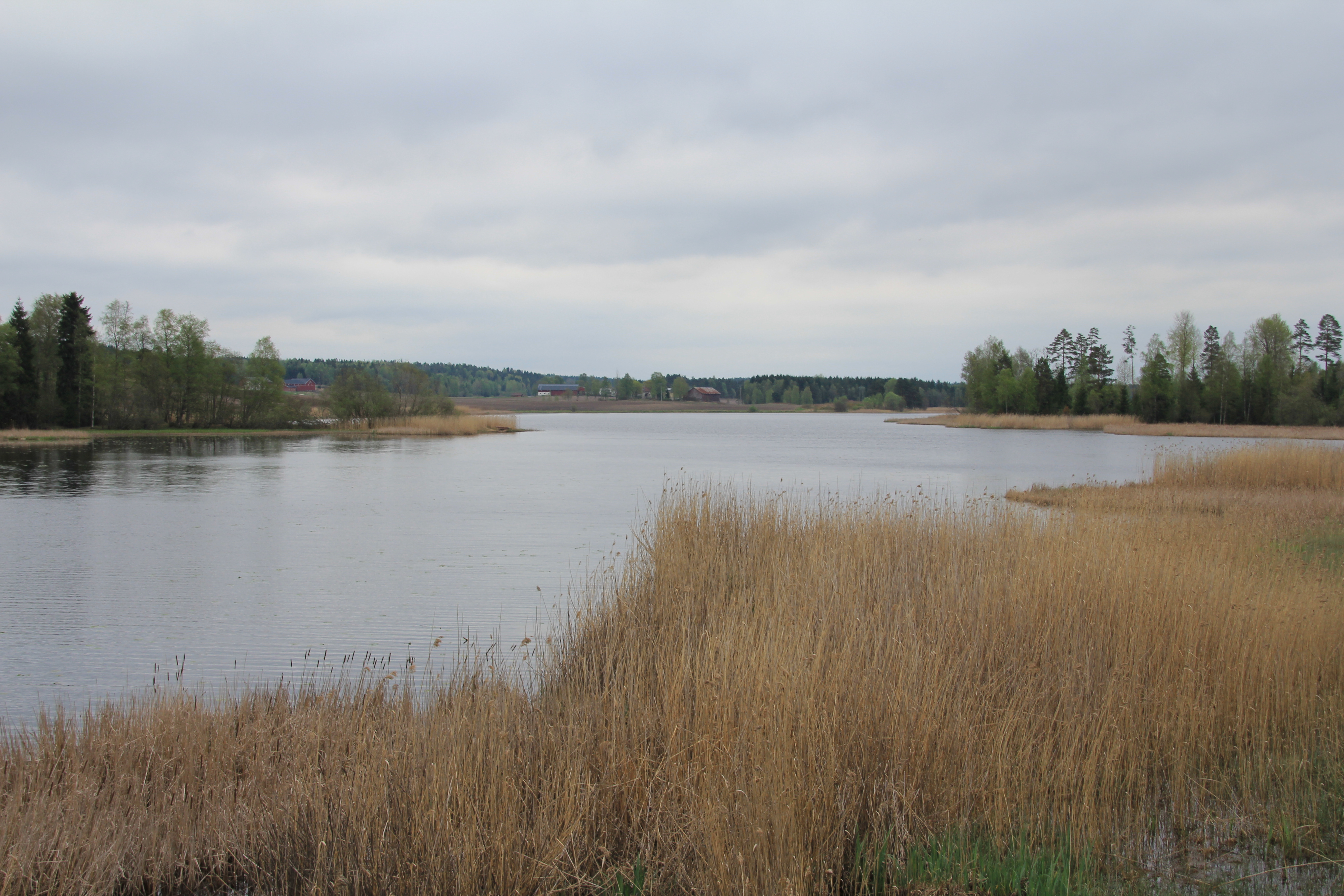 Lake Gjølsjøen in Marker, Norway.